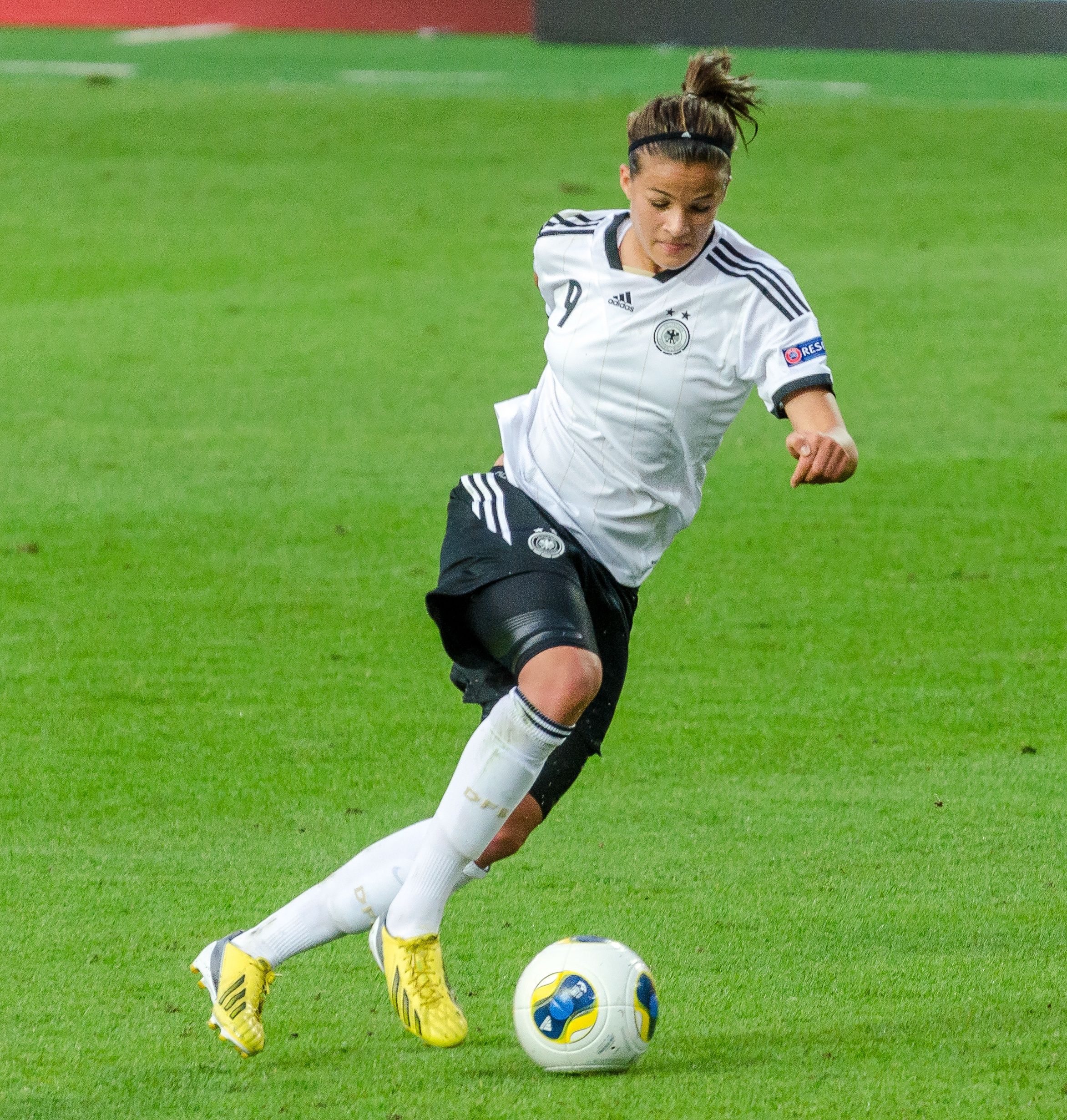 German attacker Lena Lotzen playing in the German Women's National Team's first game of UEFA Women's Euro 2013, 0-0 against the Netherlands in Växjö.